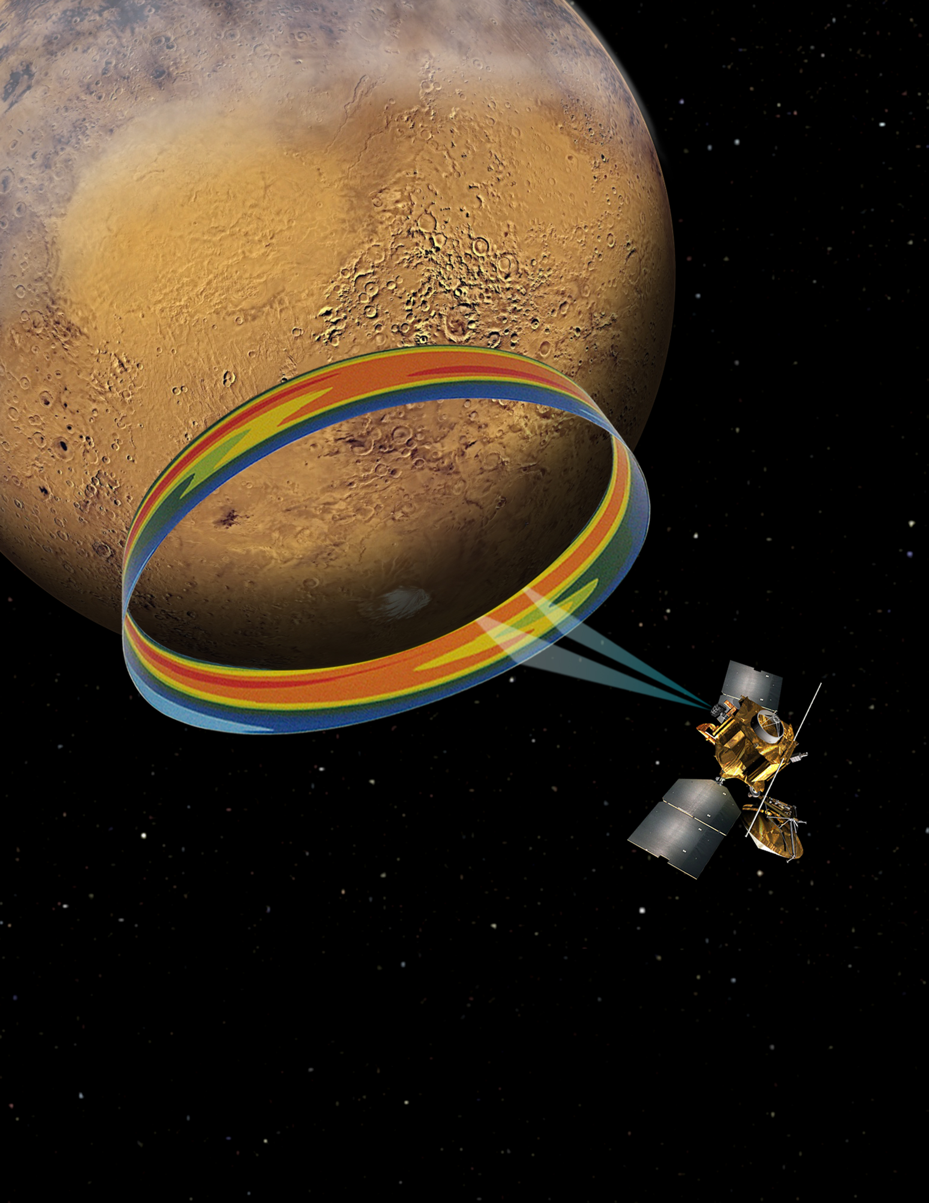 This graphic depicts the Mars Climate Sounder instrument on NASA's Mars Reconnaissance Orbiter measuring the temperature of a cross section of the Martian atmosphere as the orbiter passes above the south polar region. The Mars Climate Sounder is an infrared radiometer that can be pointed sideways for detecting temperatures at different elevations above the surface of the planet. Multiple measurements since MRO arrived at Mars in 2006 have provided a record of atmospheric temperatures at different times of day on both the sunlit (daytime) and dark (nighttime) portions of the planet. The data indicate that temperatures rise and fall not just once a day, as might be expected from simple warming by the sun, but twice, with a rise during the nighttime as well as during daytime. Researchers have identified the cause for this pattern to be the thin water-ice clouds that form in the equatorial region of Mars. The water-ice clouds absorb infrared light emitted from the Martian surface, and that absorption heats the middle atmosphere. In the graphic, orange and yellow represent higher temperature than green or blue. These results are described in a paper being published by the journal Geophysical Research Letters. NASA's Jet Propulsion Laboratory, a division of the California Institute of Technology in Pasadena, provided the Mars Climate Sounder instrument and manages the Mars Reconnaissance Orbiter Project for NASA's Science Mission Directorate in Washington.